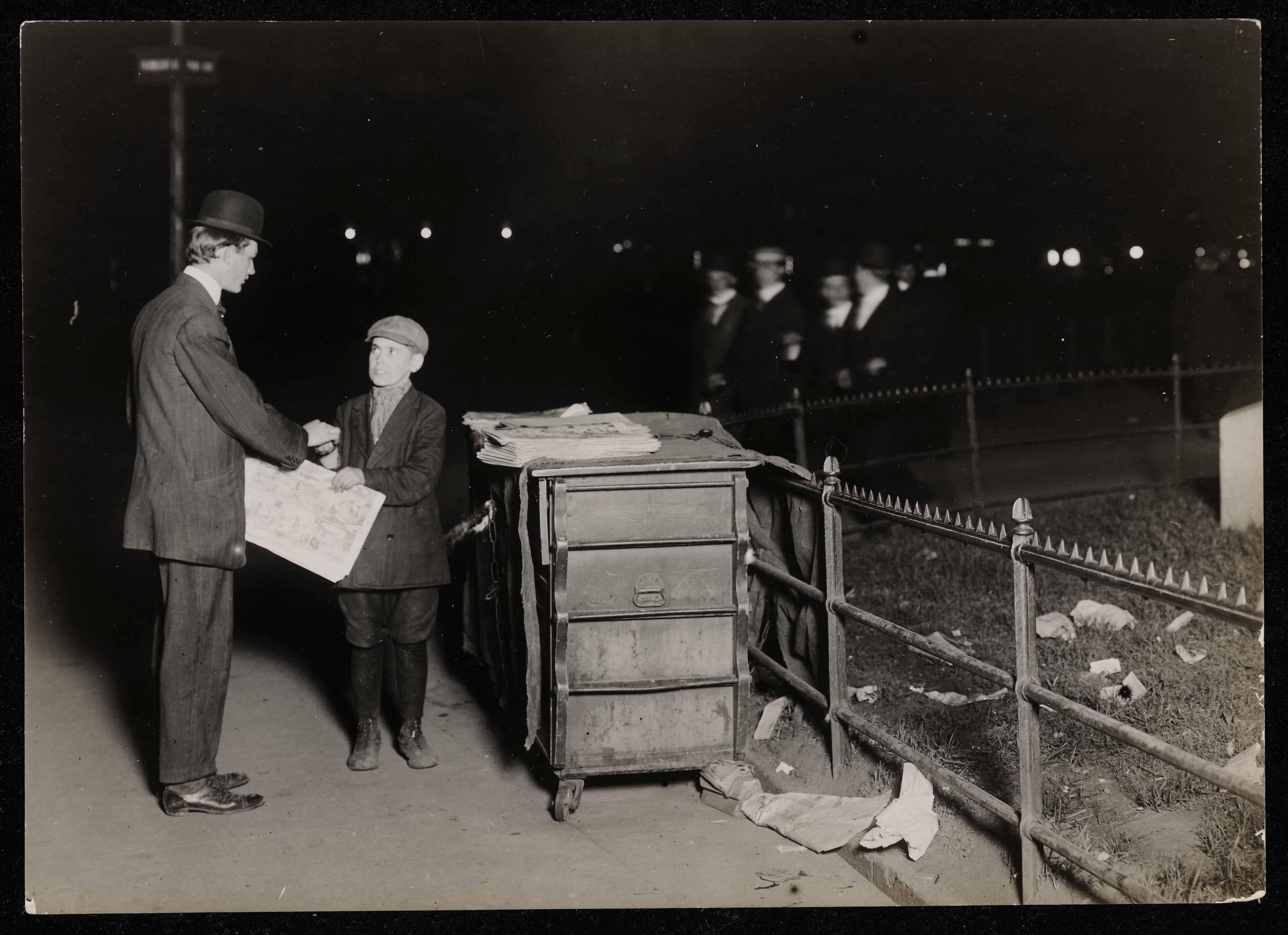 A 14 year old boy selling newspapers alone, past midnight Hine, Lewis Wickes This was the only small newsie I could find in the vicinity of Brooklyn Bridge after midnight. Said he stayed out until 3 o'clock. Introduced himself as Moses Markowitz, 171 Allen St., 14 yrs. old. Location: Brooklyn Bridge, New York 1910, USA. NMFF.003732